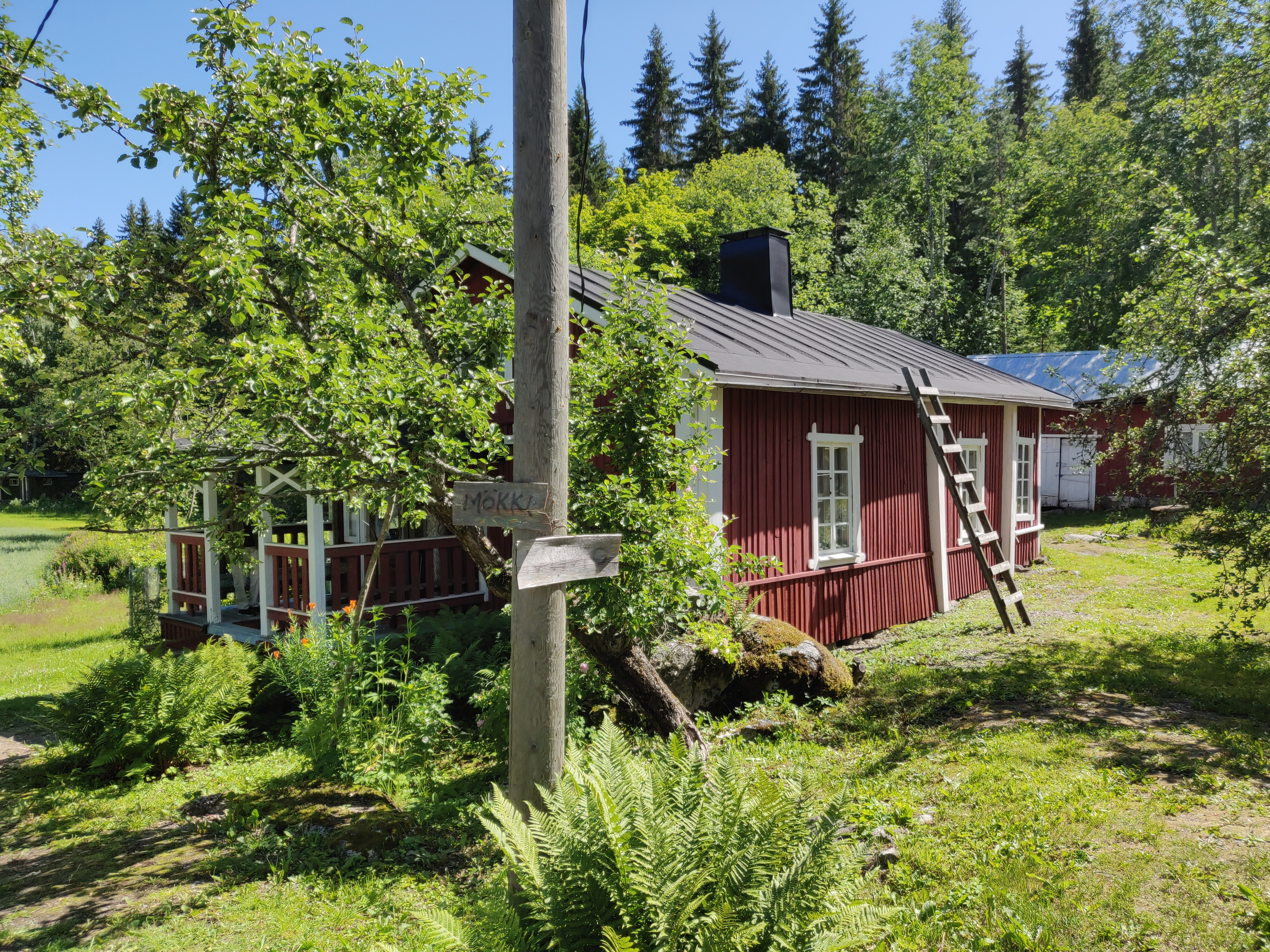 A red wooden cabin with a black roof and white window boards.